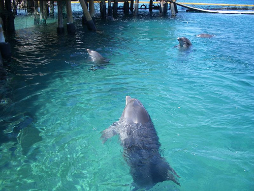 Dolphinarium in Eilat, Israel